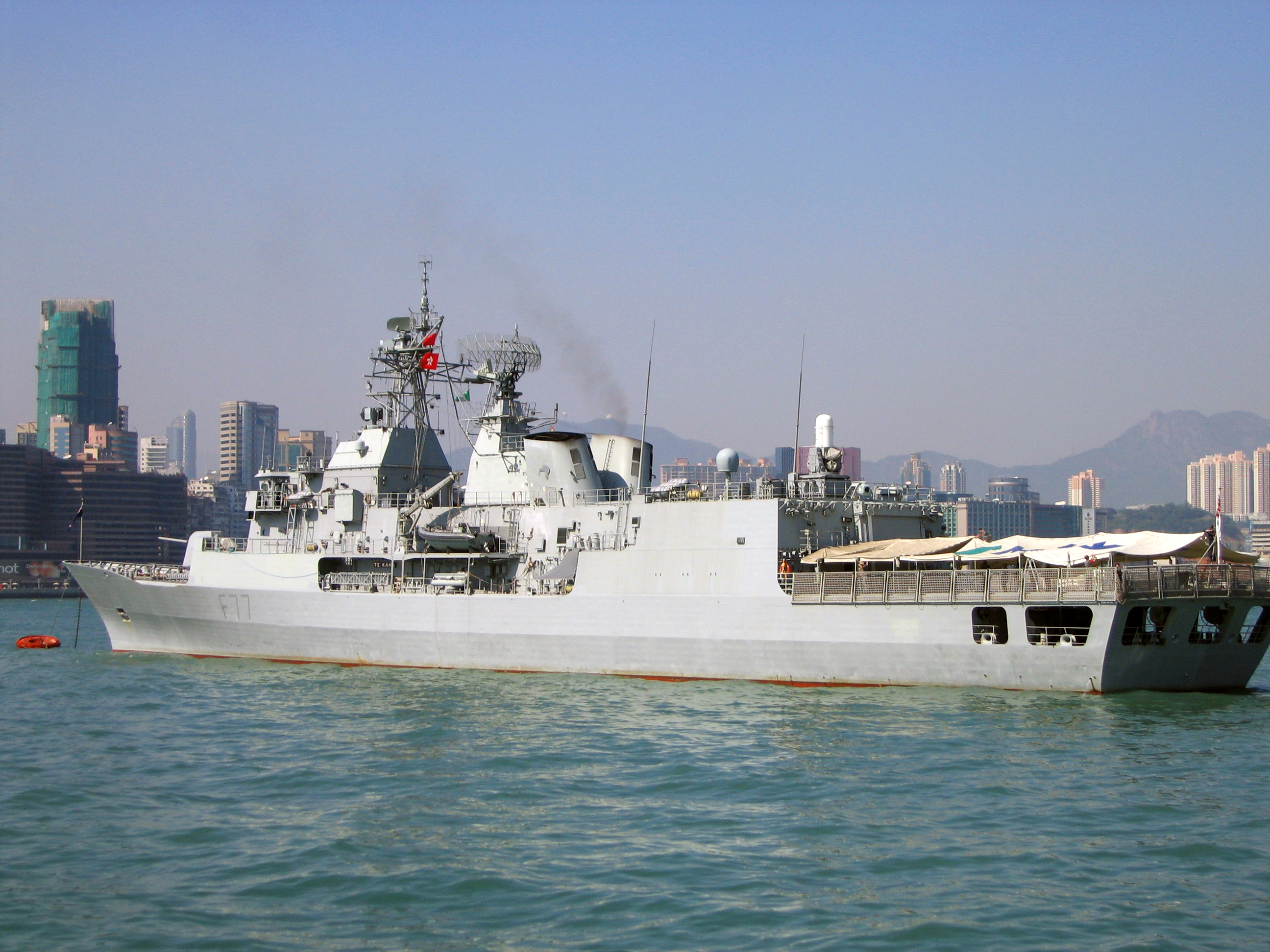 Photo taken by myself. HNZMS Te Kaha (F77) in Victoria Harbour, Hong Kong, China, 10/2004